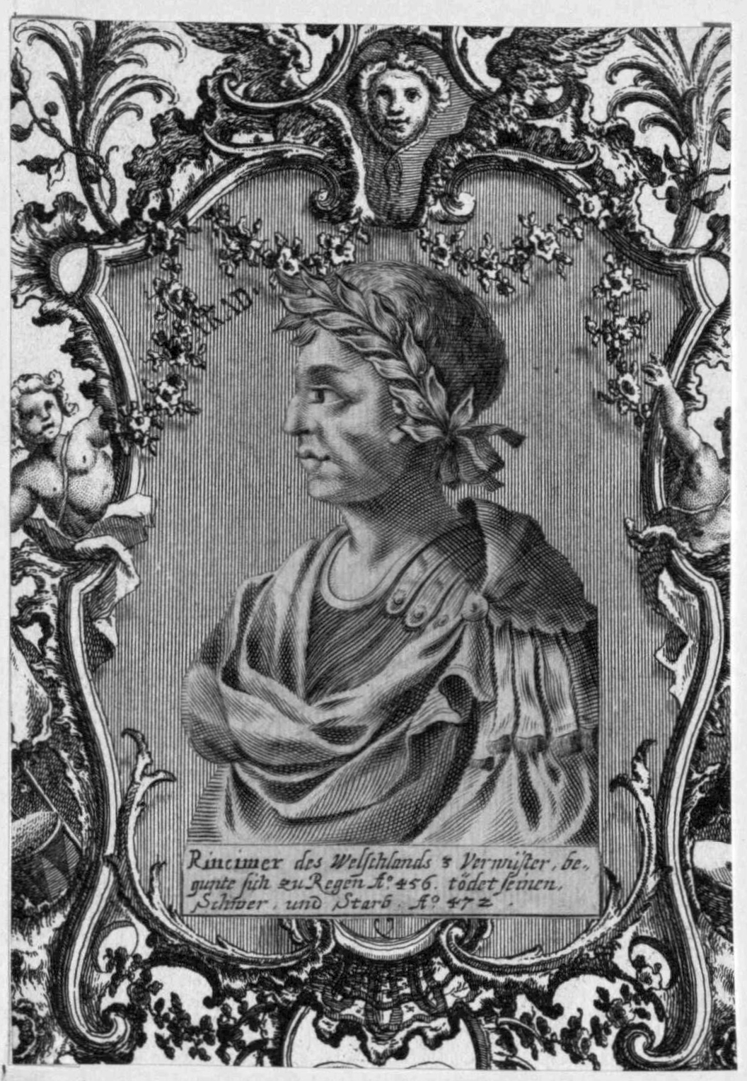 Roman Ricimer (405-472), graphic